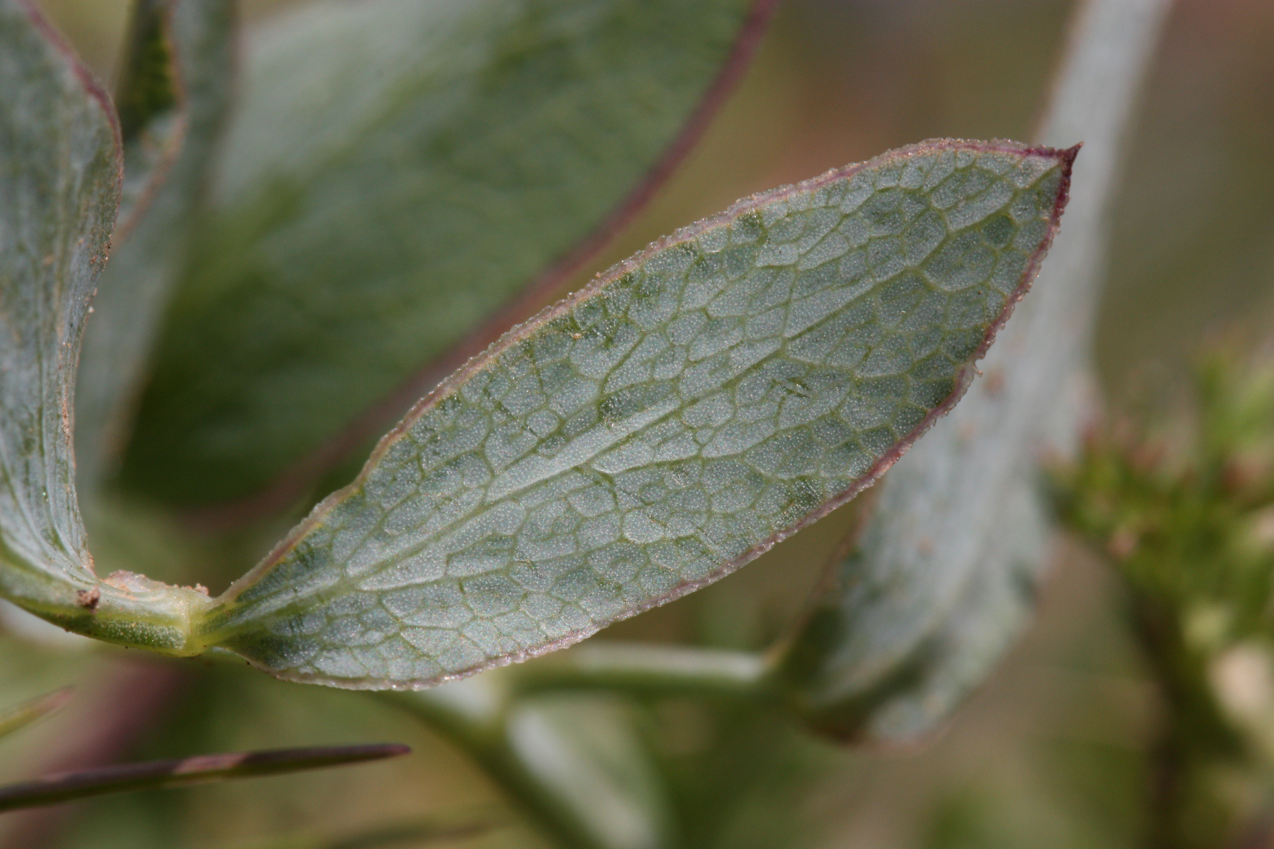 Barestem Biscuitroot, Indian-consumption-plant, Pestle Parsnip Viewpoint location: McCall Point Trail, Tom McCall Preserve Viewpoint elevation: 518 meter (1700 ft) Location source: Garmin GPSmap 60CSx Location Datum: WGS84